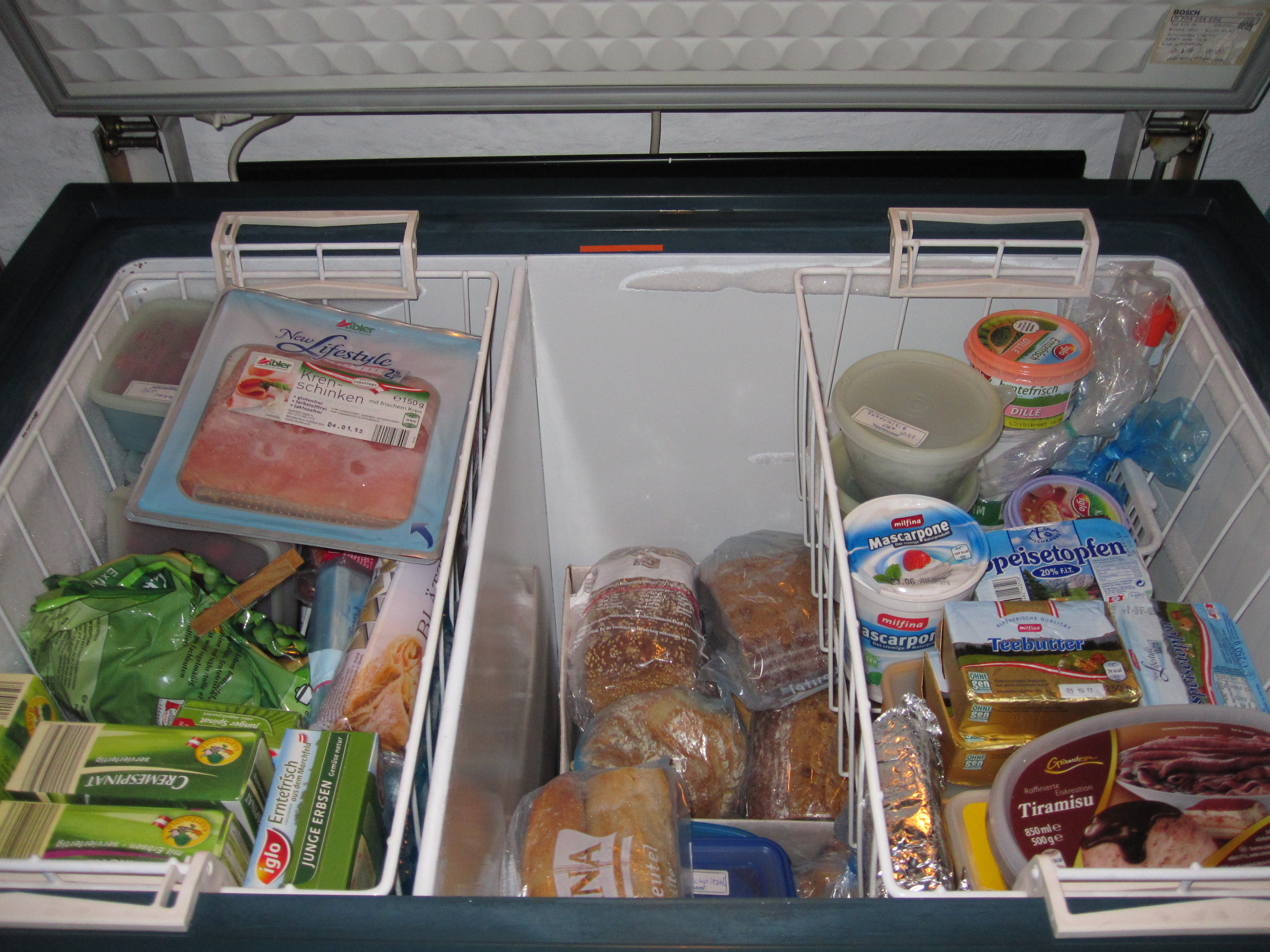 Freezer full groceries for crisis Prevention.Emergency generator not forget. Matthew 6.11: Give us this day our daily bread.